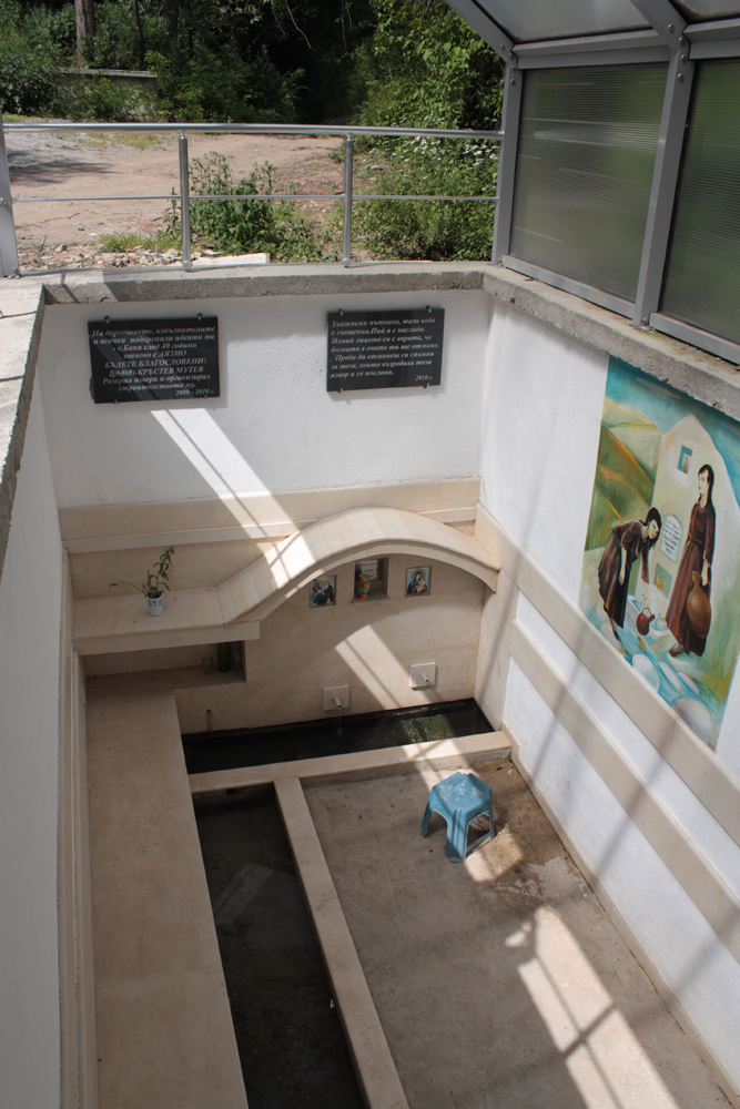 Mineral spring near a monastery of Banya